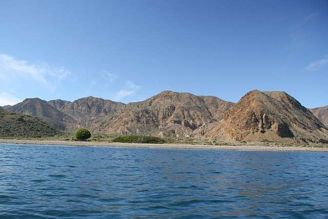 Photo of east side of Cedros Island, Baja California